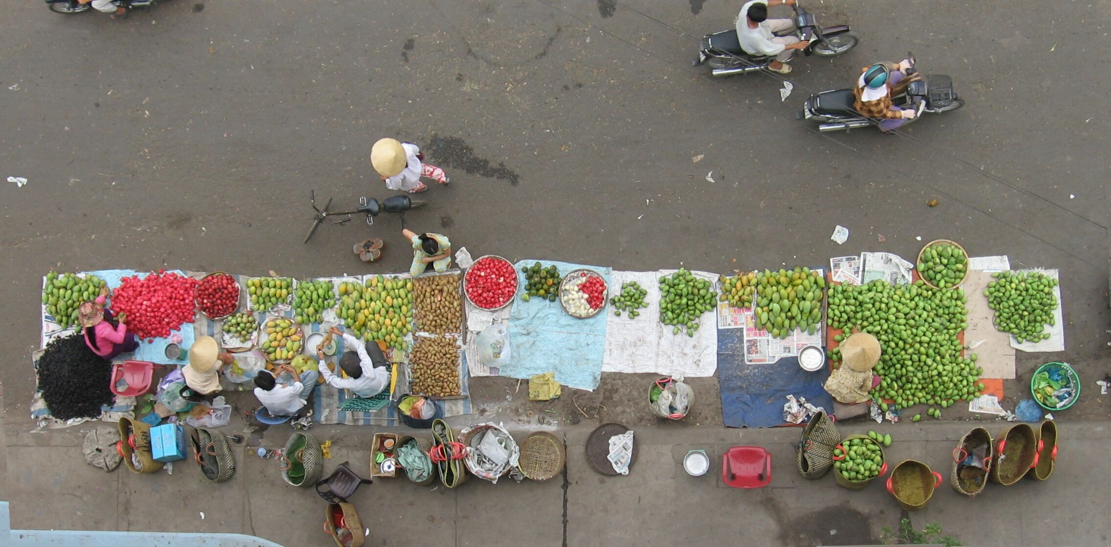 View of market in Vinh Long, Vietnam. Photo taken from nearby building roof, 28 Feb 2007, on Canon handheld camera. Released to Public domain Mar 8 07.